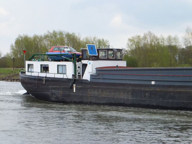 A ship showing a blue square at the river IJssel in the Netherlands.